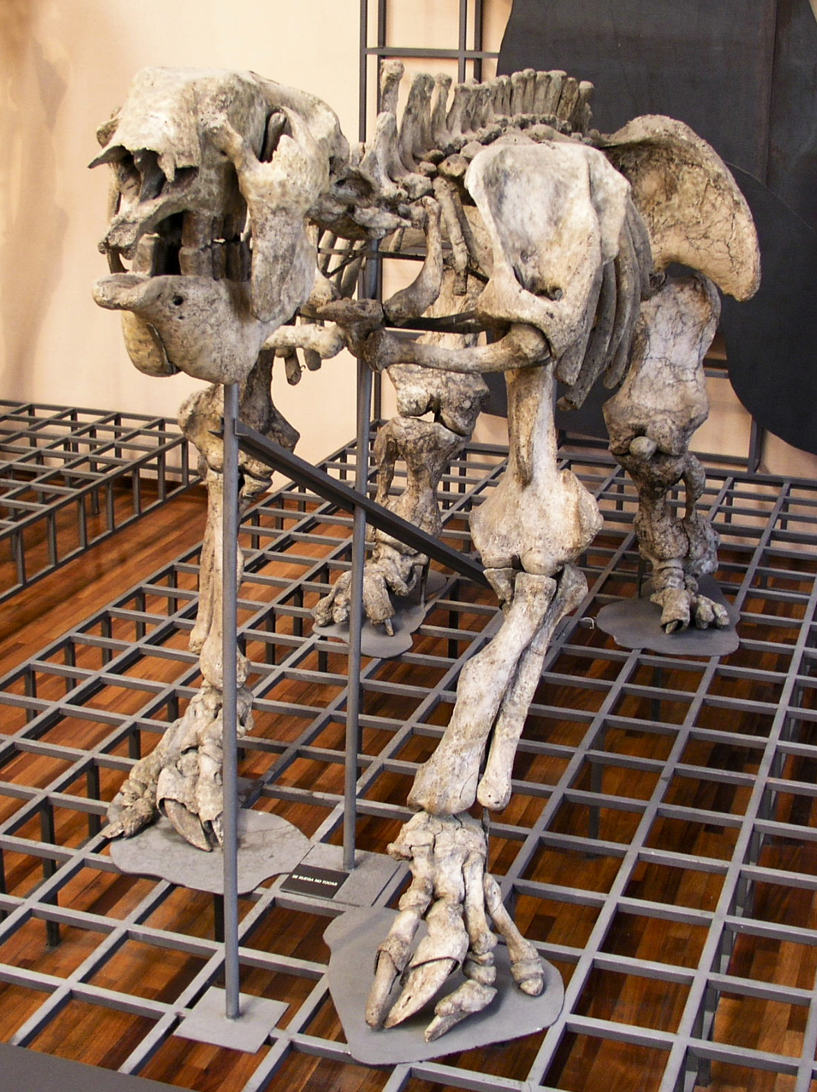 Megatherium americanum, Museo Nacional de Ciencias Naturales (Madrid, Spain). Brought to Madrid from Argentine in 1789.